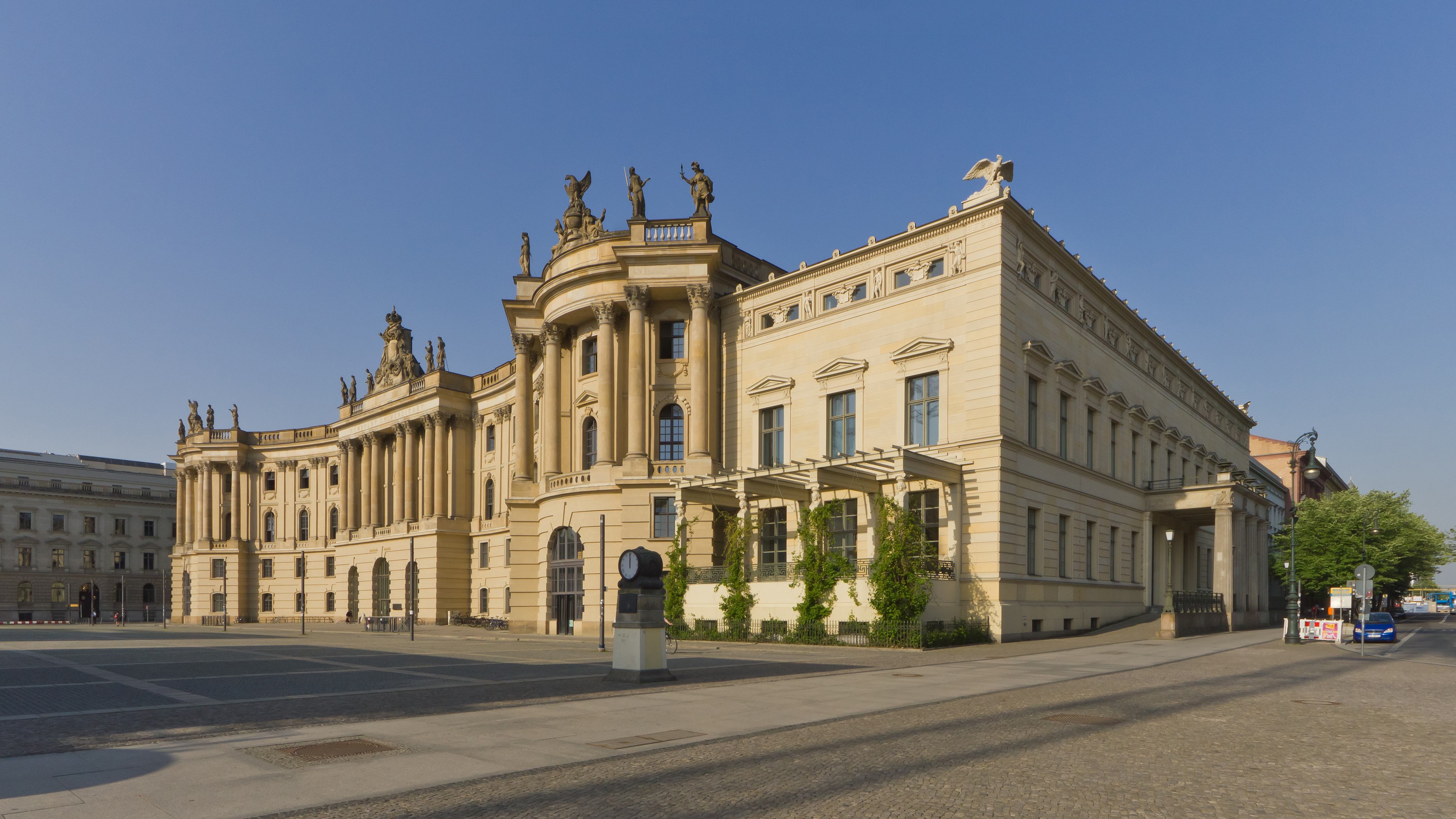 Old Library building at Bebelplatz, Berlin, Germany